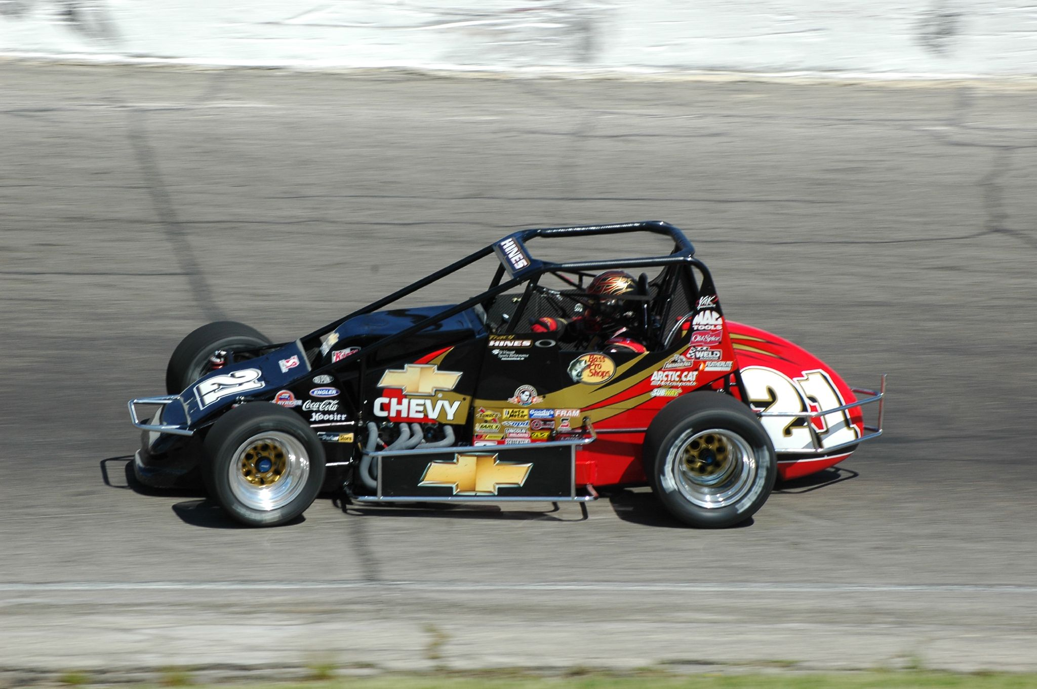 Former NASCAR driver and former USAC champion Tracy Hines in his Tony Stewart Racing Sprint Car